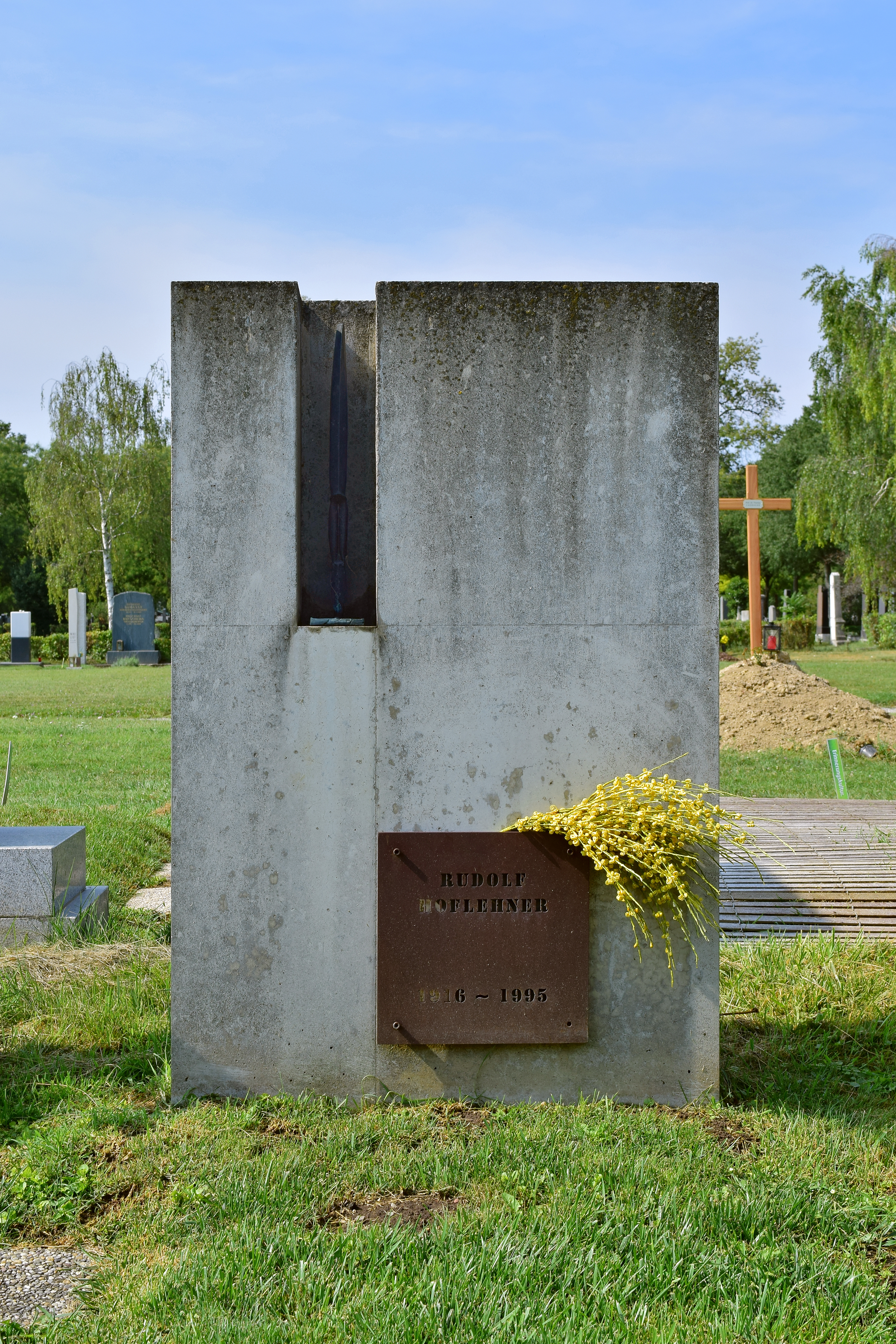 Grave of honor of the Austrian painter and sculptor Rudolf Hoflehner at the Wiener Zentralfriedhof